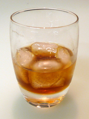 Black Russian